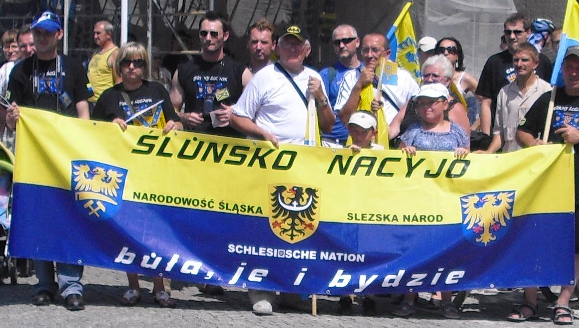 "Silesian Nation - was, is, will be" - from III Authonomy March, Katowice